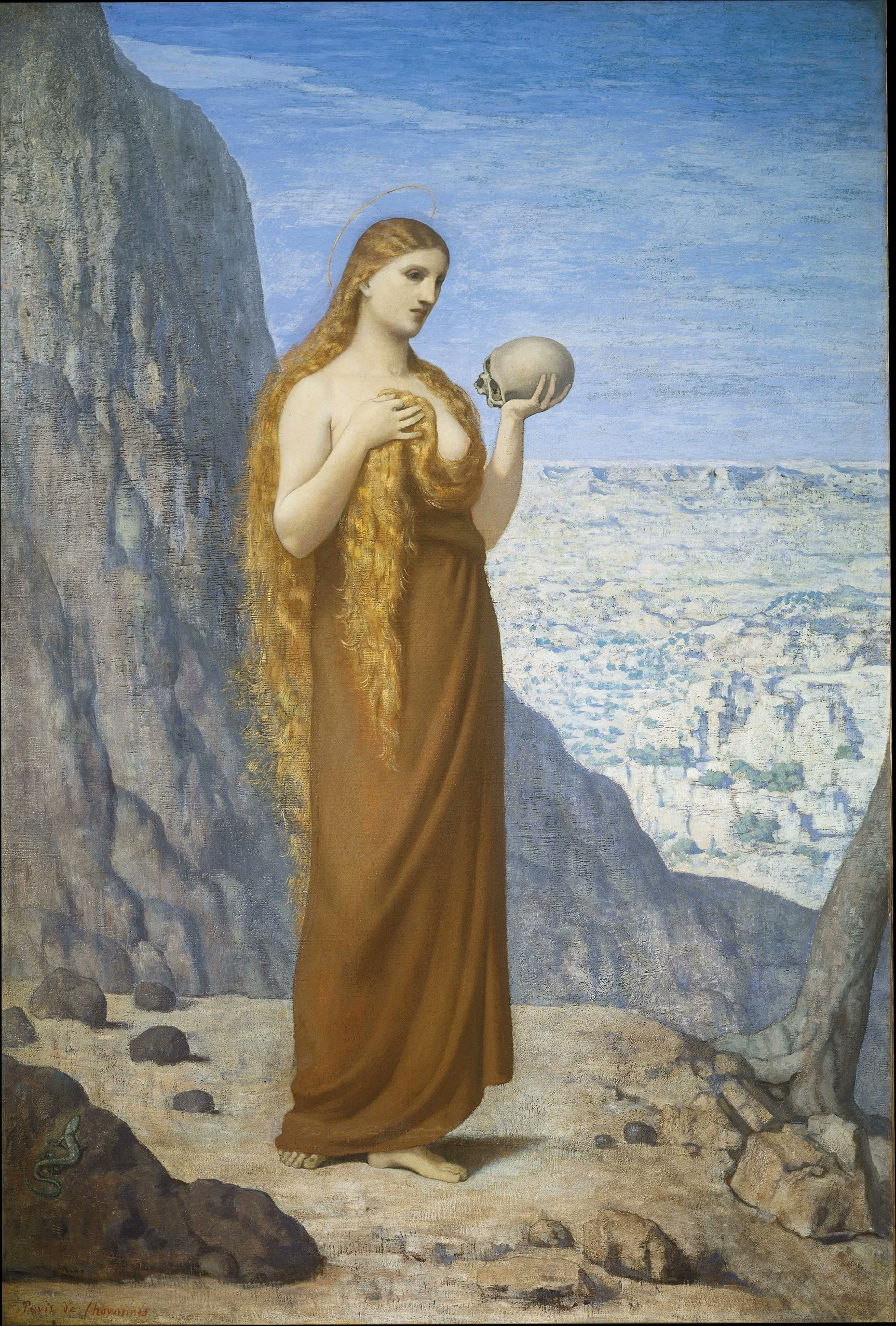 Saint Mary Magdalene in the Desert